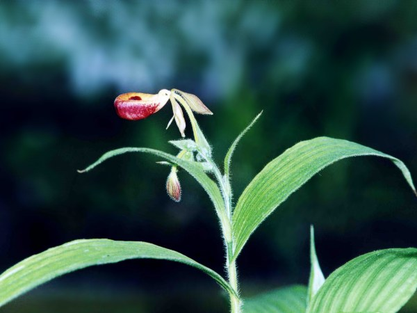 Selenipedium palmifolium